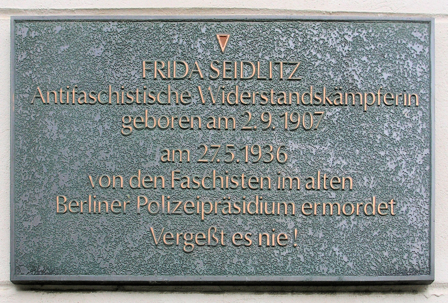 Memorial plaque, Frieda Seidlitz, Heinersdorfer Straße 32, Berlin-Weißensee, Germany